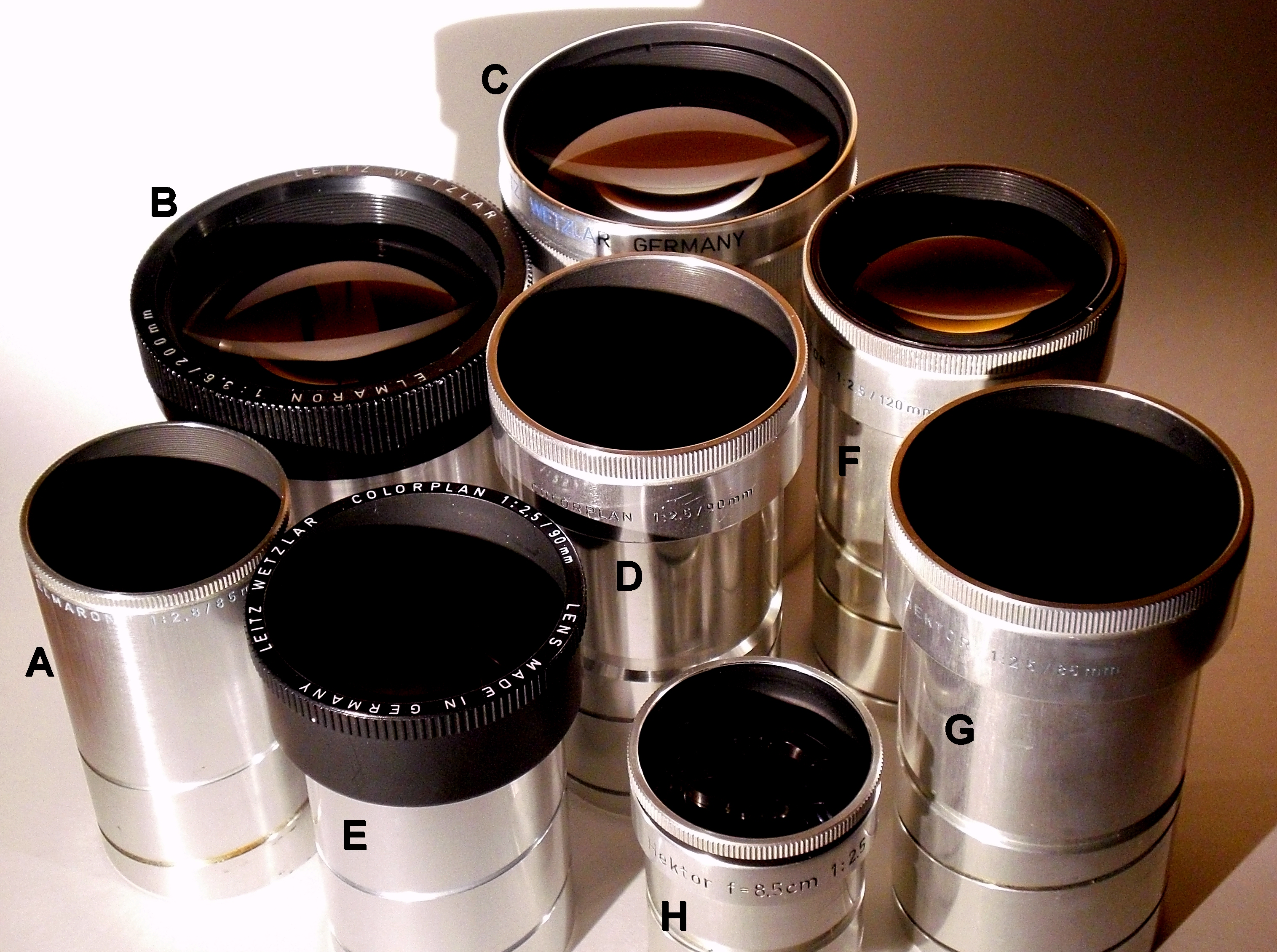 Set of eight projection objectives for slide projectors by German optics manufactorer Ernst Leitz, Wetzlar (the "Leica" company). A: Elmaron 2.8/85; B: 3.6/200; C: Elmaron (?) 4(?)/250; D: Colorplan 2.5/90; E: Colorplan 2.5/90; F: Hektor 2.5/120; G: Hektor 2.5/100; H: Hektor 2.5/85.